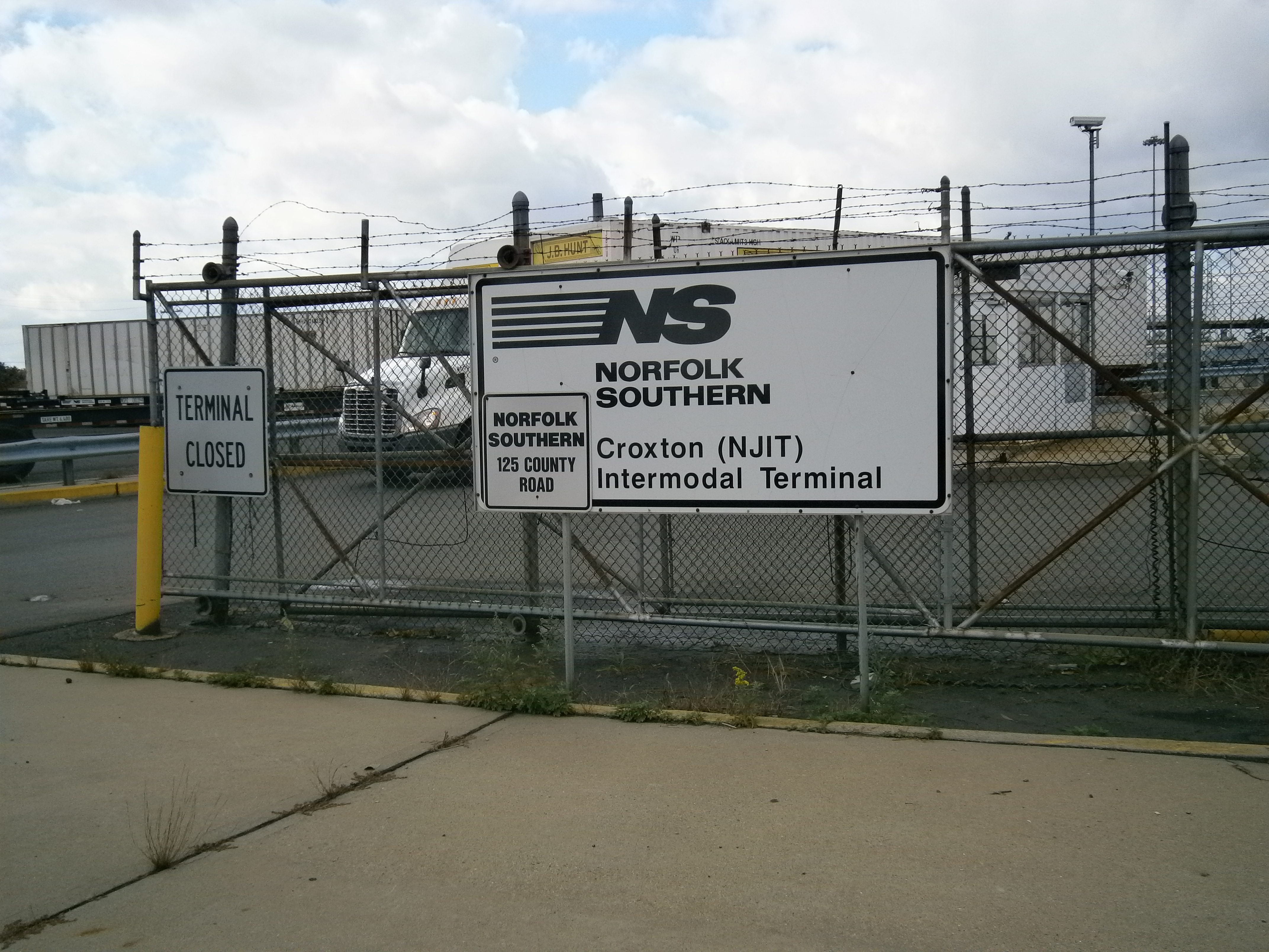 Croxton Yard (NJ Intermodal Terminal) within North Jersey Shared Assets area in the Meadowlands in Jersey City